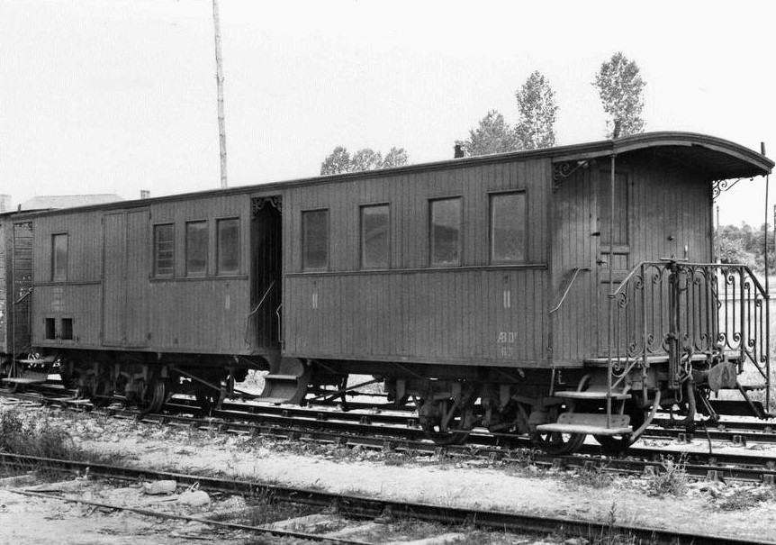 Réseau Breton - Voiture mixte n° ABDf 63 en gare - LA BROHINIERE - Commune de MONTAUBAN (35)